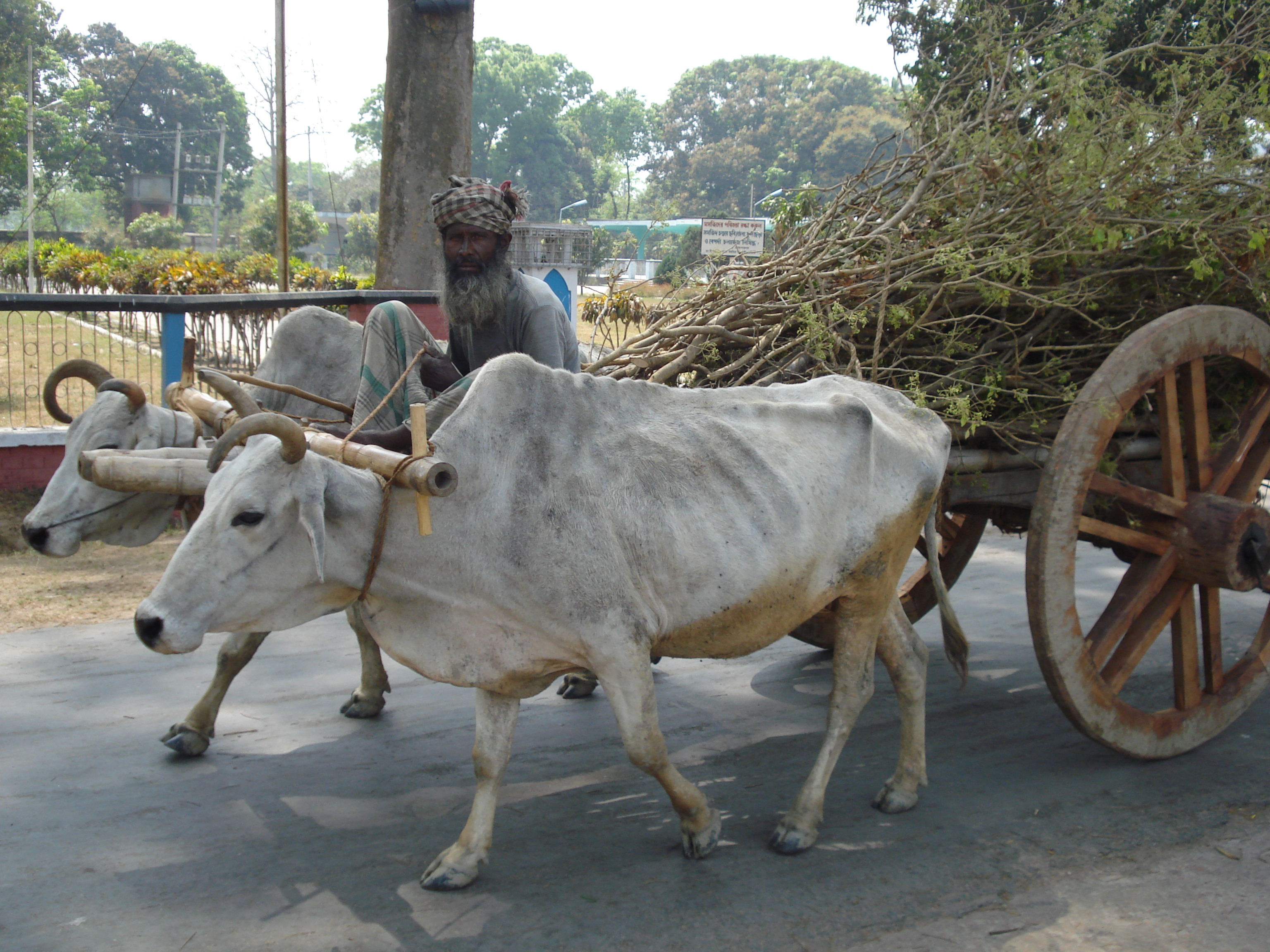 A Bullock cart on Ru campus road.